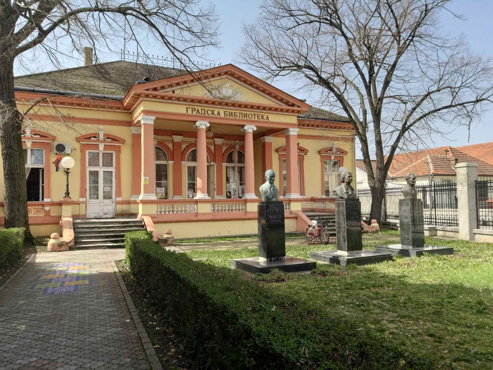 Dečje odeljenje1